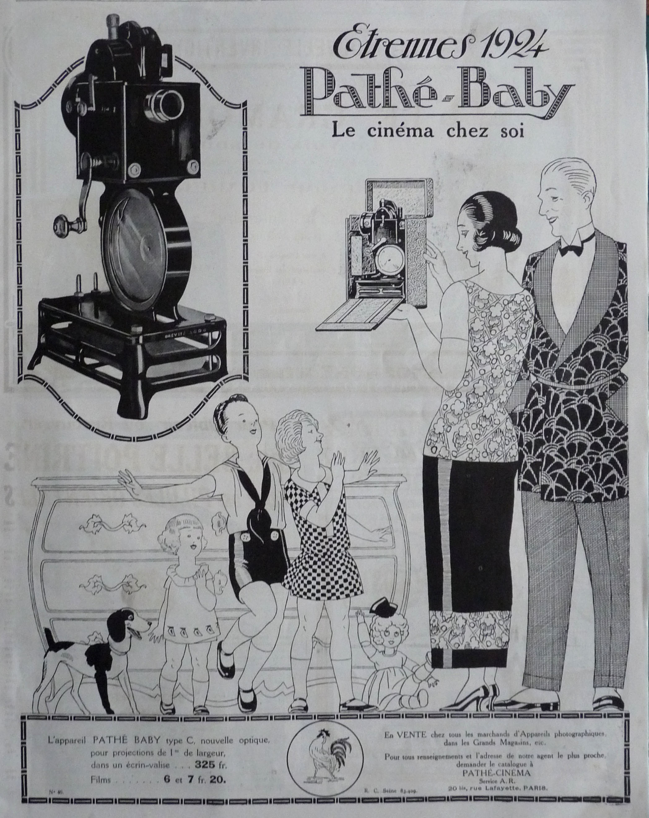 Pathé-Baby film projector : advertisement of 1923